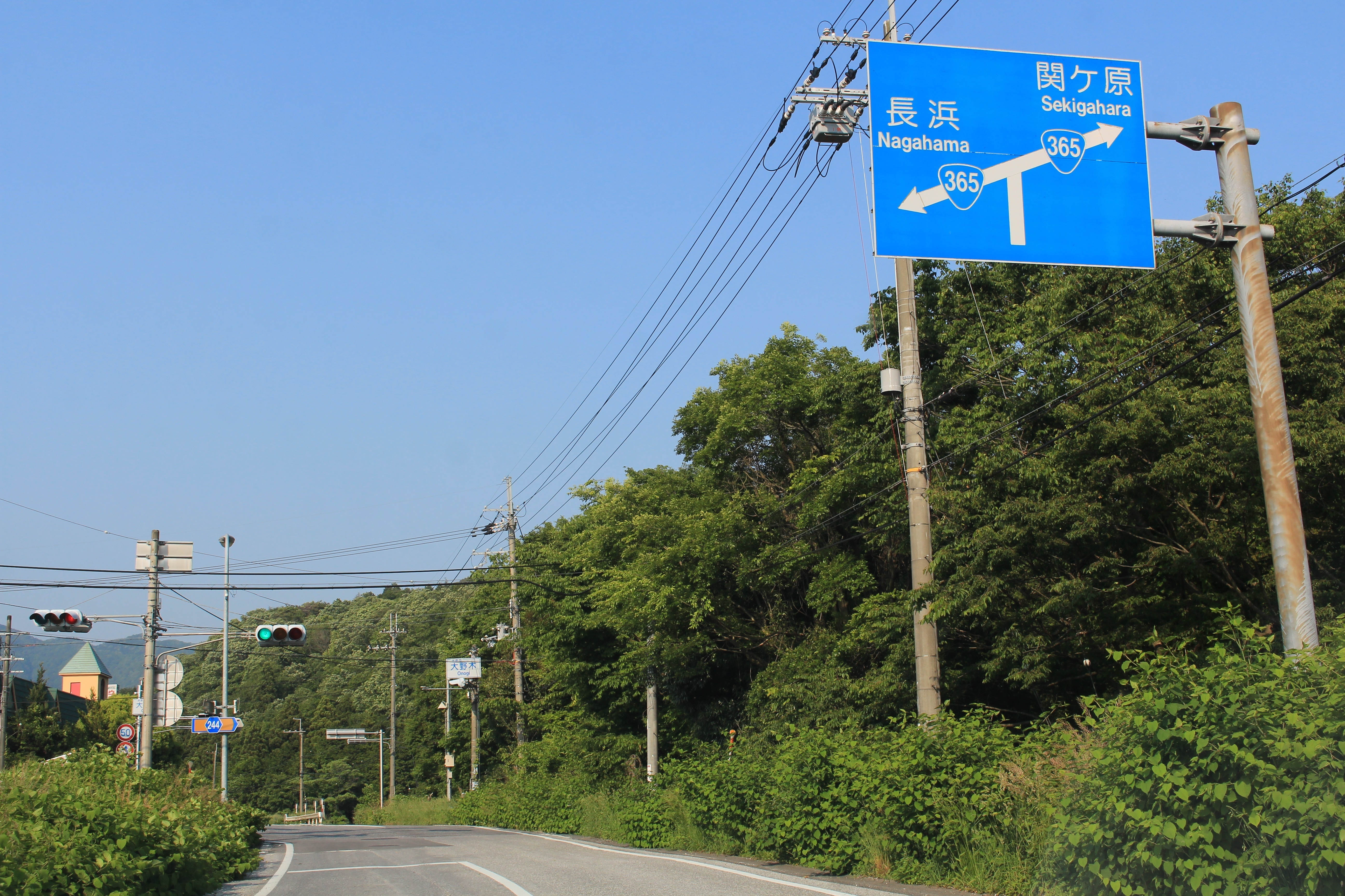 Shiga Prefectural Road Route 244 in Onogi, Maibara, Shiga prefecture, Japan.